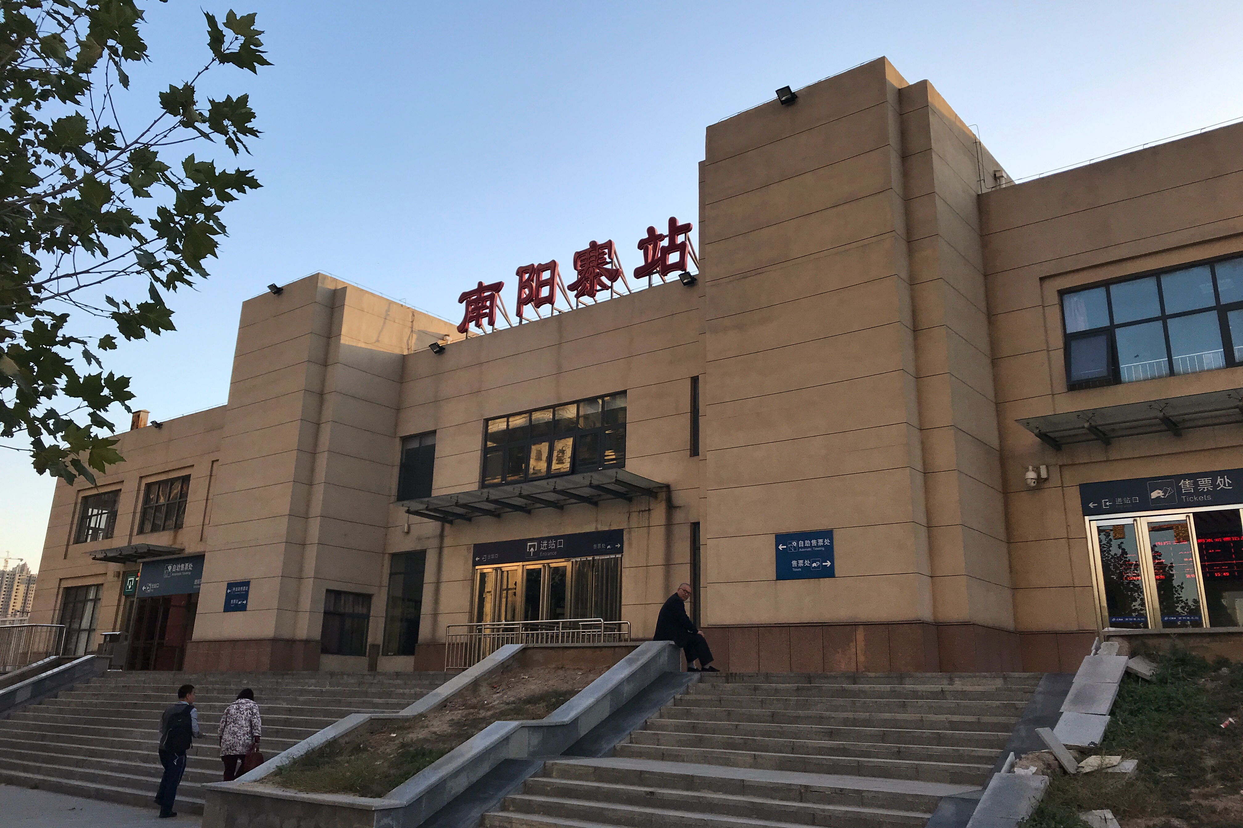 The station building of Nanyangzhai Railway Station